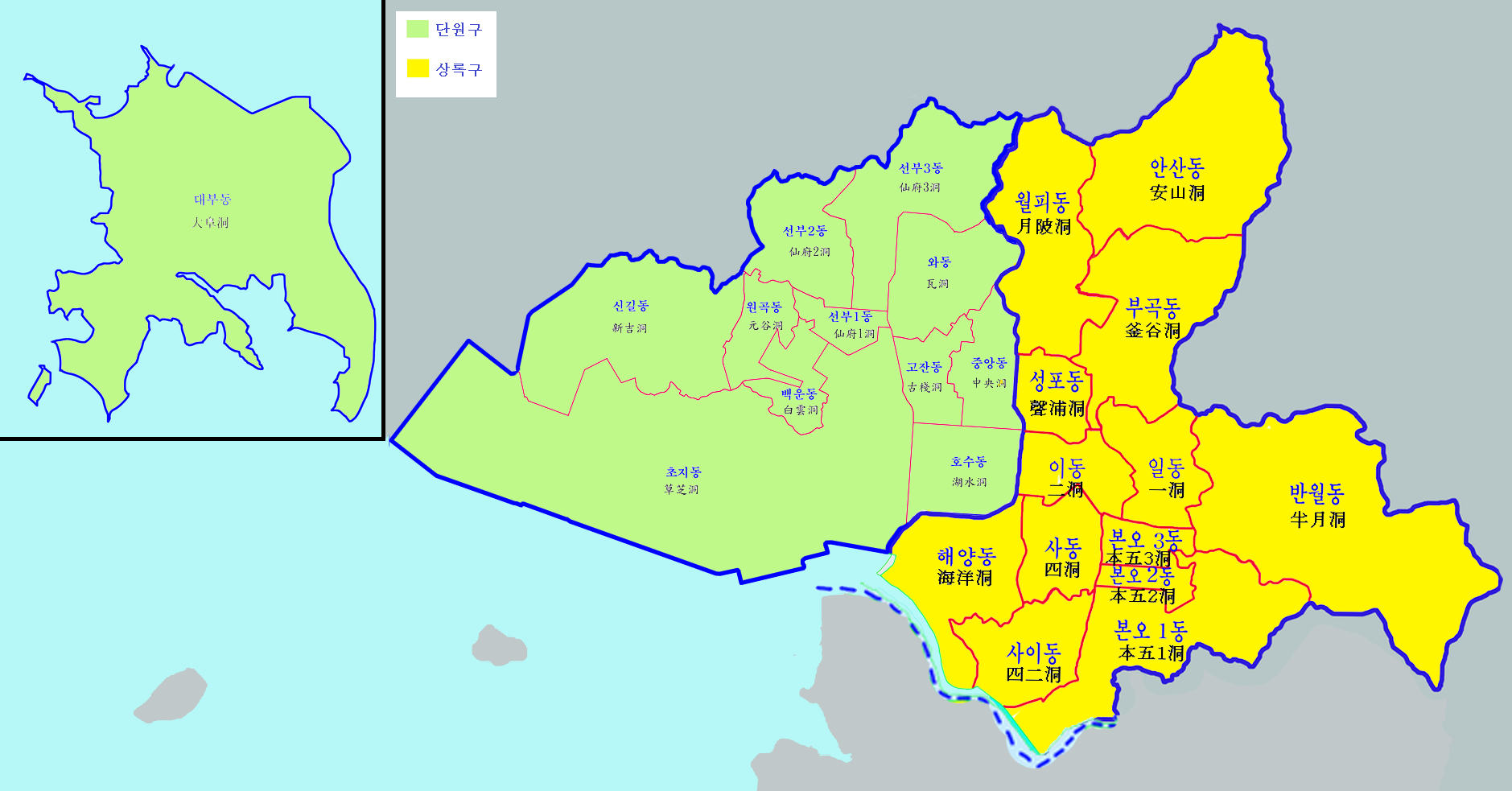 Map Ansan-si district